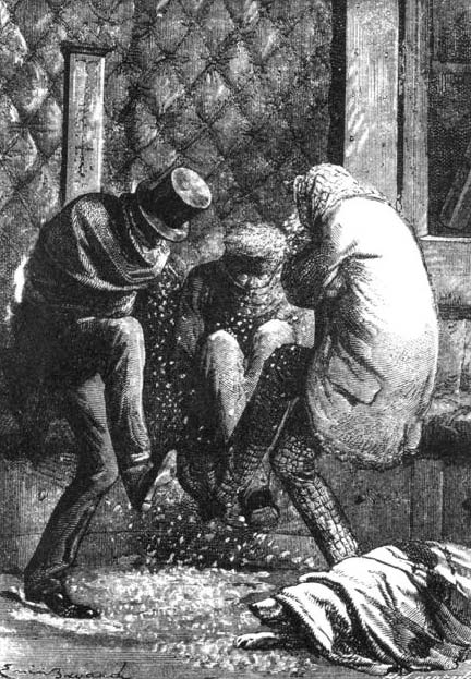 An illustration from Jules Verne's novel "Around the Moon" drawn by Émile-Antoine Bayard and Alphonse de Neuville.